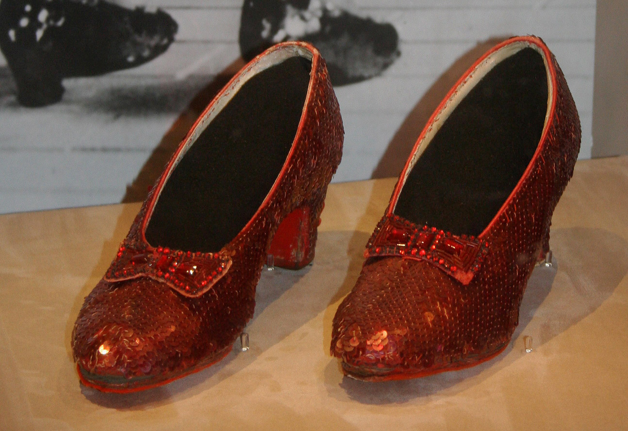 Dorothy’s Ruby Slippers, 1938 Sixteen-year-old Judy Garland wore these sequined shoes as Dorothy in The Wizard of Oz.